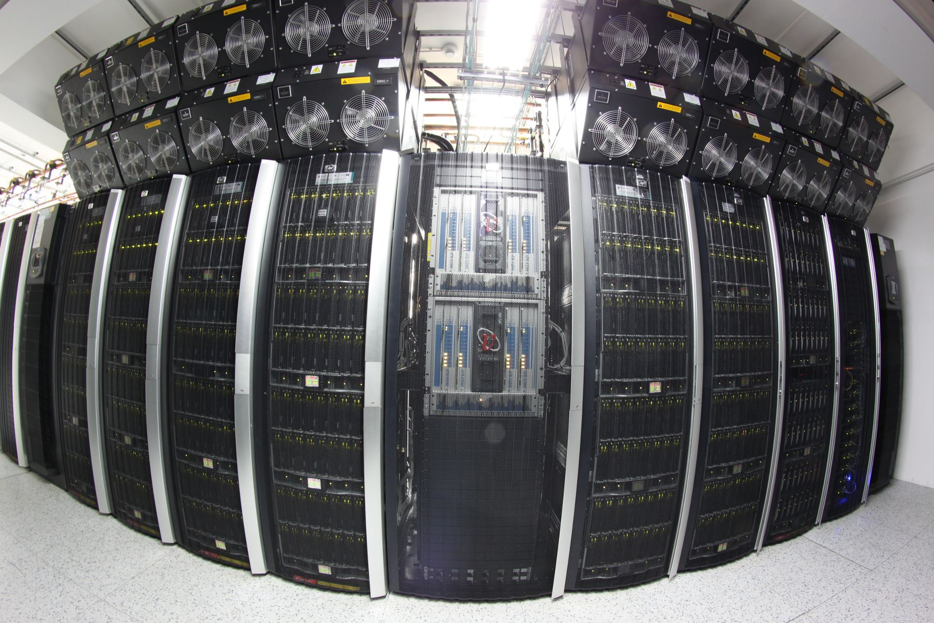 Zeus Supercomputer installed in ACC Cyfronet AGH